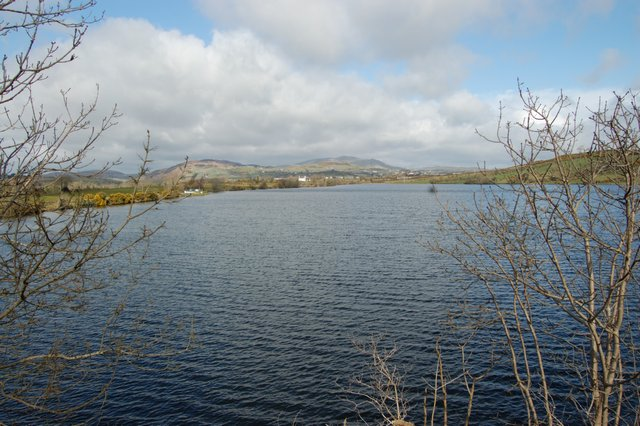 Ballylough private fishing lough A good view of the lough with Slieve Croob in the background.